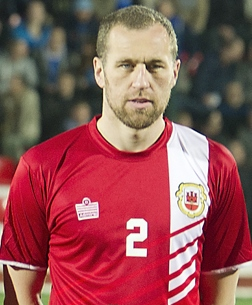 David Artell vs. Estonia